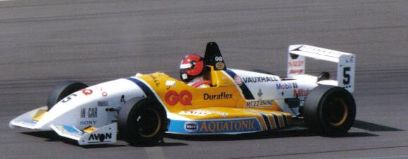 Oliver Gavin driving for Edenbridge Racing at Silverstone during the 1995 British Formula Three Championship.